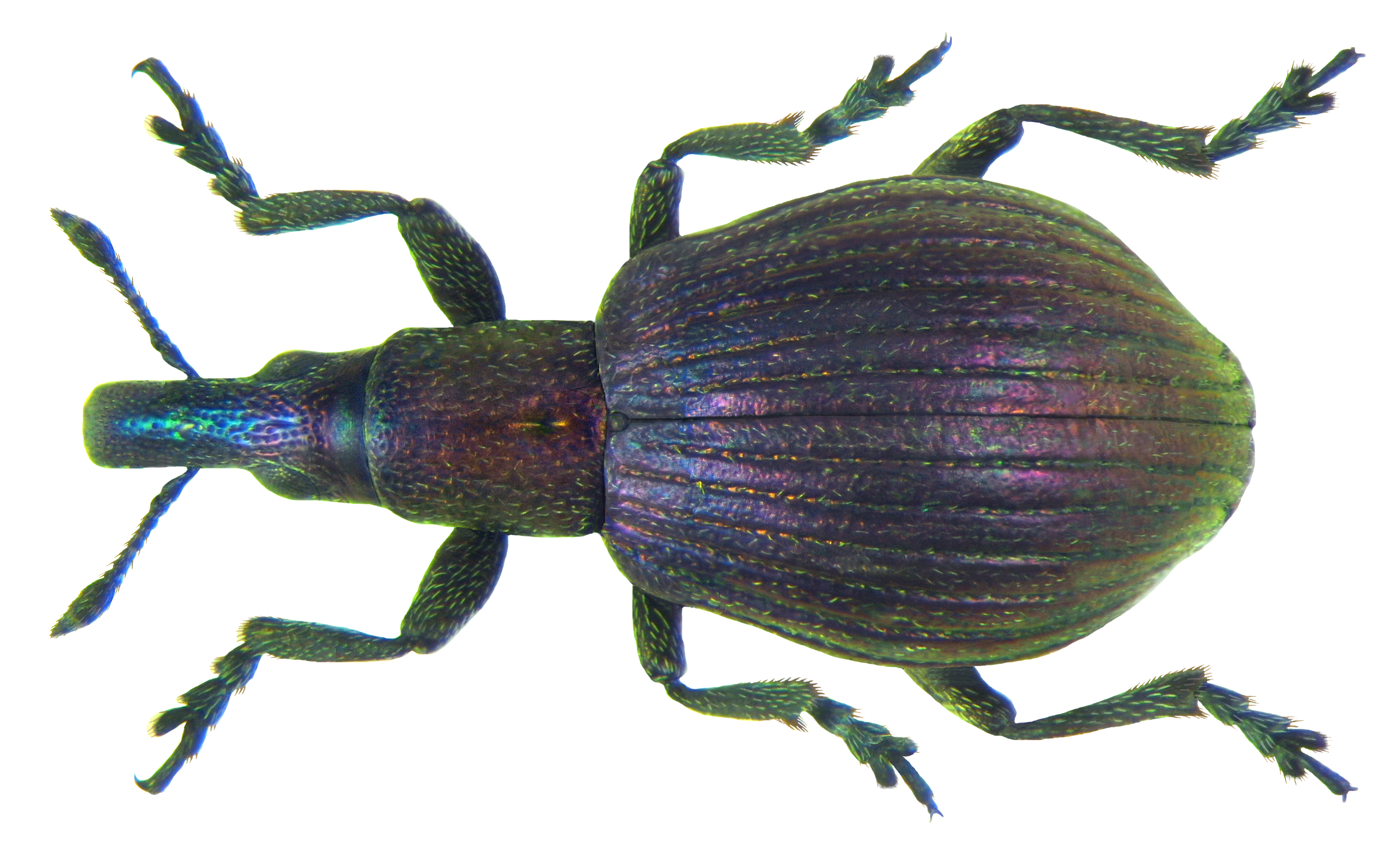 Family: Apionidae Size: 2,6-3,5 mm Origin: on the shores of the western Mediterranean, the Atlantic and the North Sea Ecology: halobiont, development in Statice limonium (vulgare) Location: England Named in Hope-Westw. Coll. pres. 1849, 1857 by F.W.Hope Coll. Museum Oxford Photo: U.Schmidt, 2012